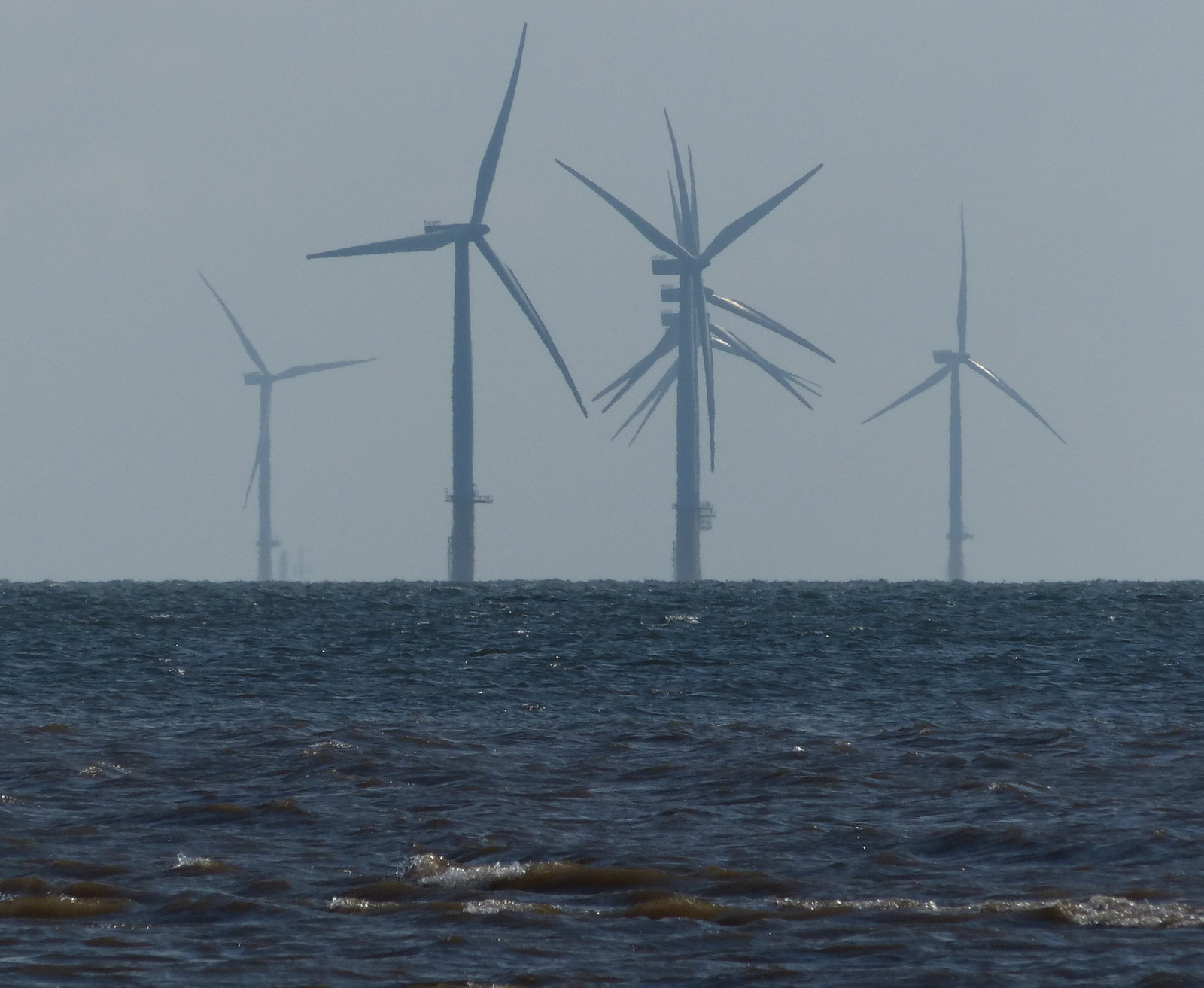 Lincs Offshore Wind Farm. Uploaders note: This picture probably shows some turbines of the Lynn and Inner Dowsing Wind Farm in the foreground, with some turbines of the Lincs Wind Farm in the background.